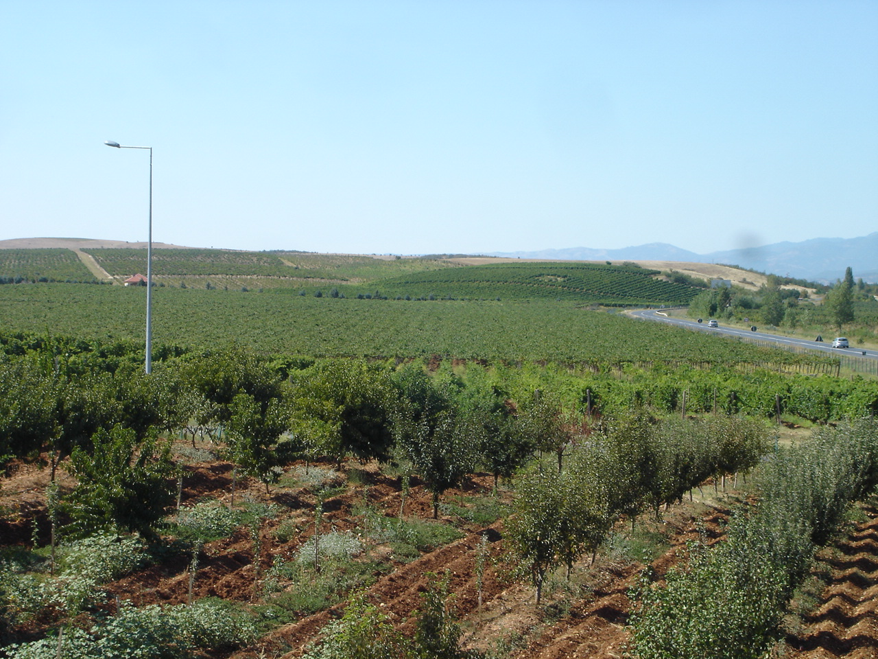 Vineyards of Grozd near Strumica, Macedonia